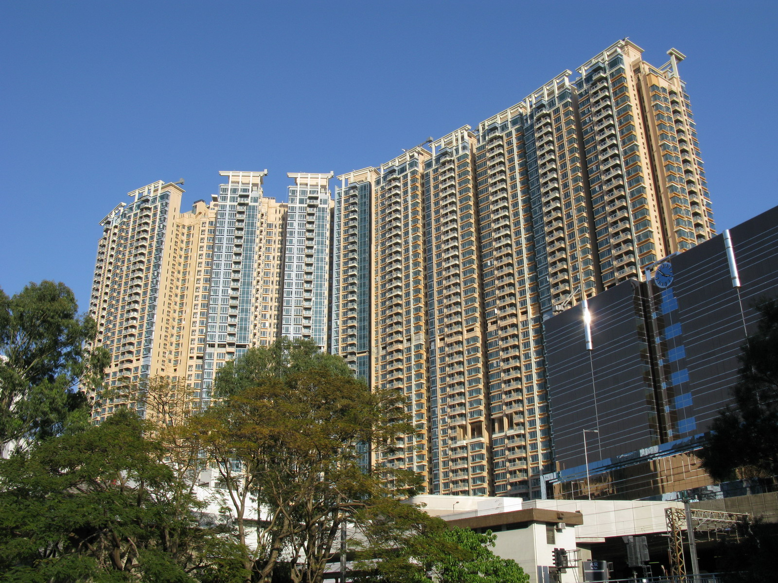 The Palazzo, Fo Tan